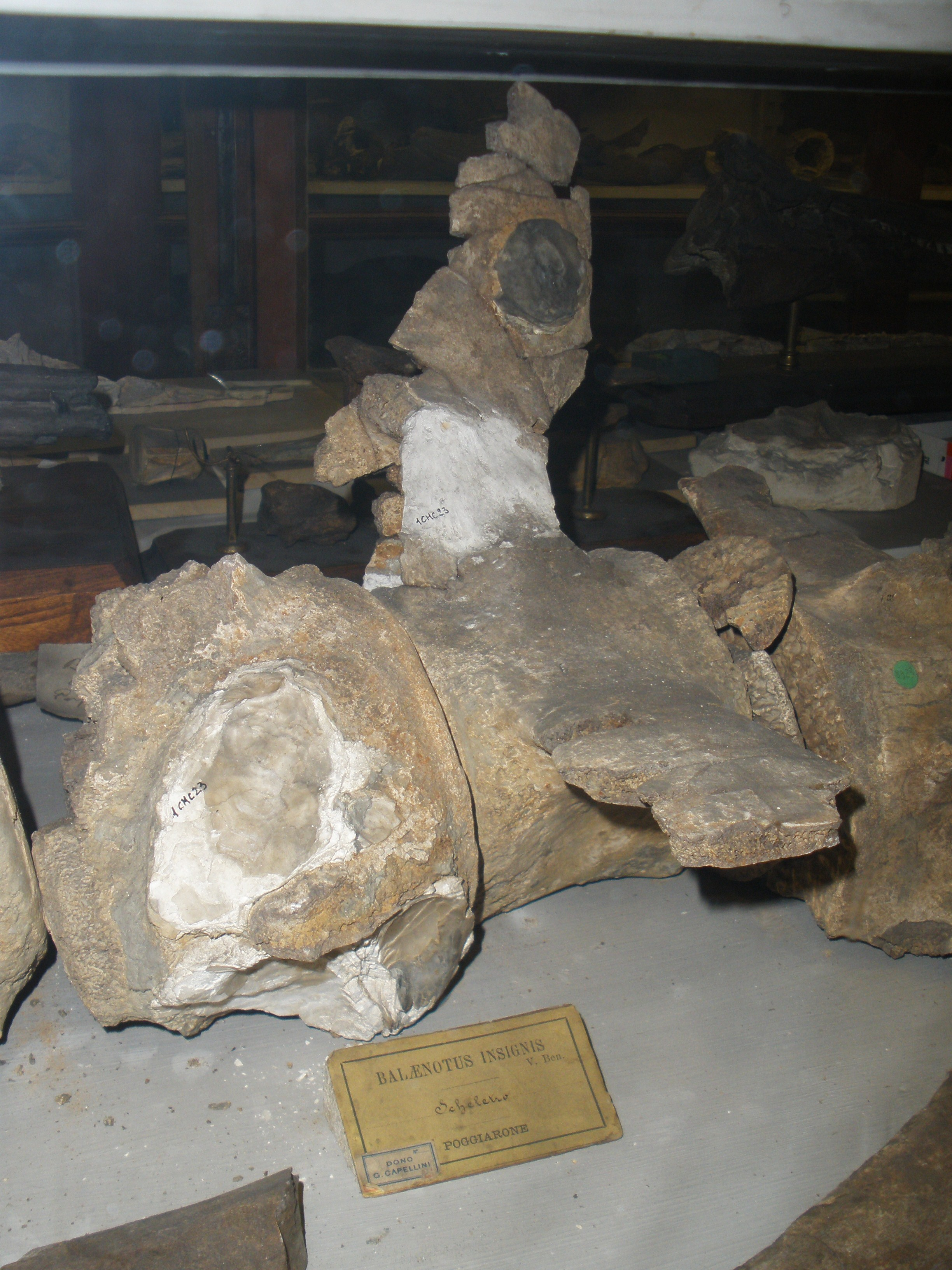 Fossil of Balaenotus insignis, an extinct whale